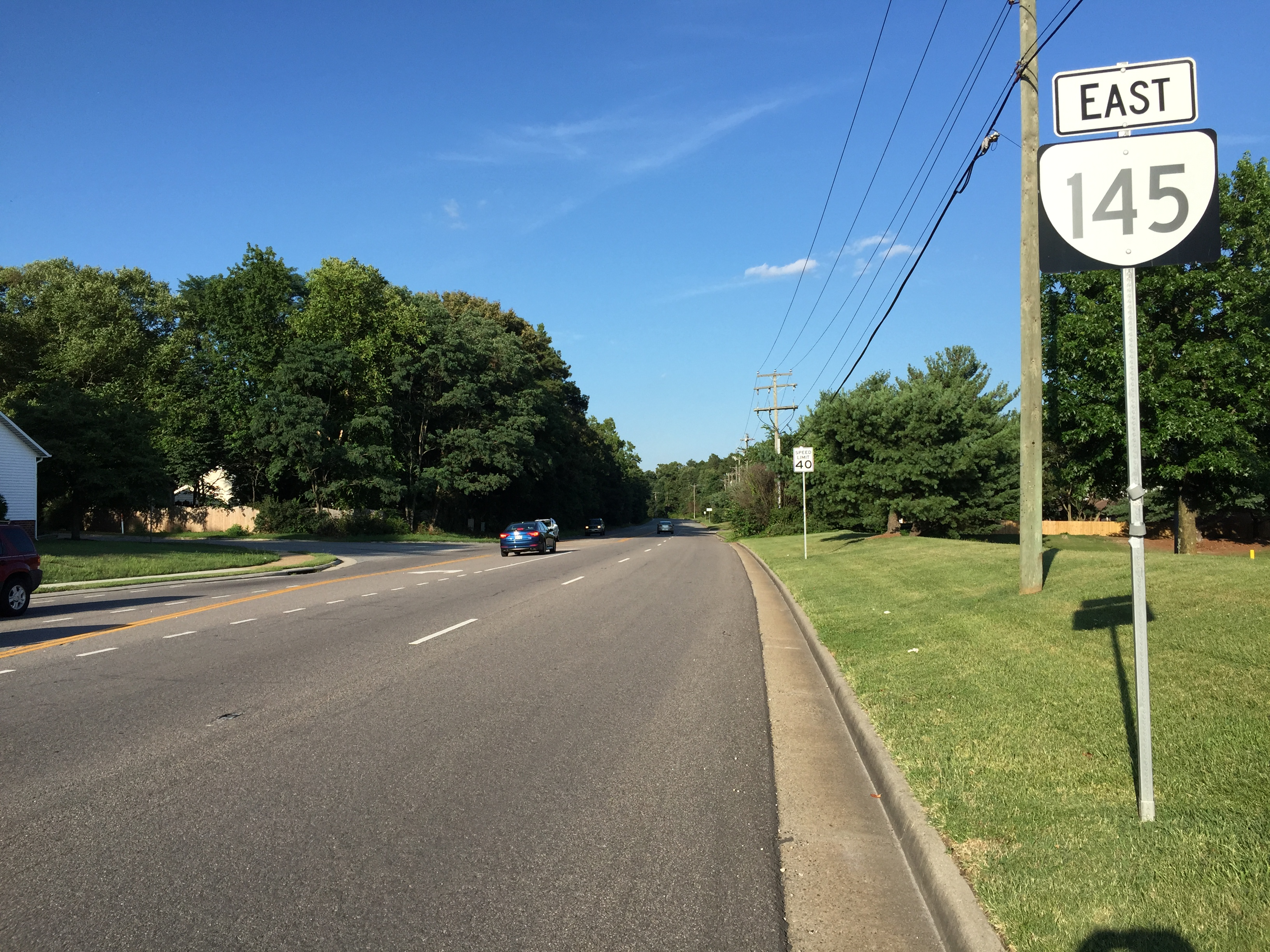 View east along Virginia State Route 145 (Centralia Road) at Nott Lane (Virginia State Secondary Route 3158) in Chesterfield, Chesterfield County, Virginia